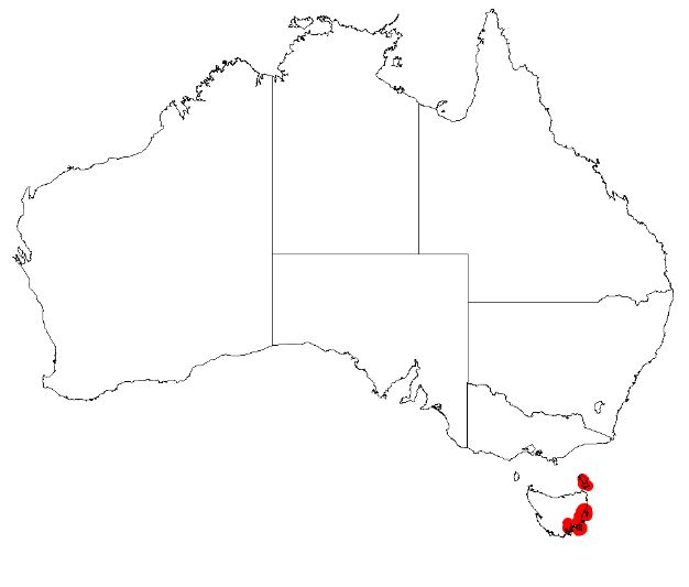 Hakea megadenia Occurrence data downloaded from AVH on 22 November 2018 using